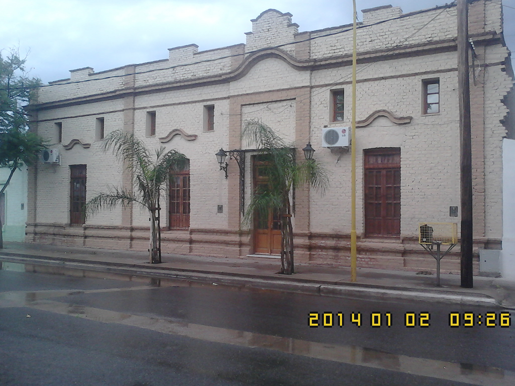 casa de la cultura Quines